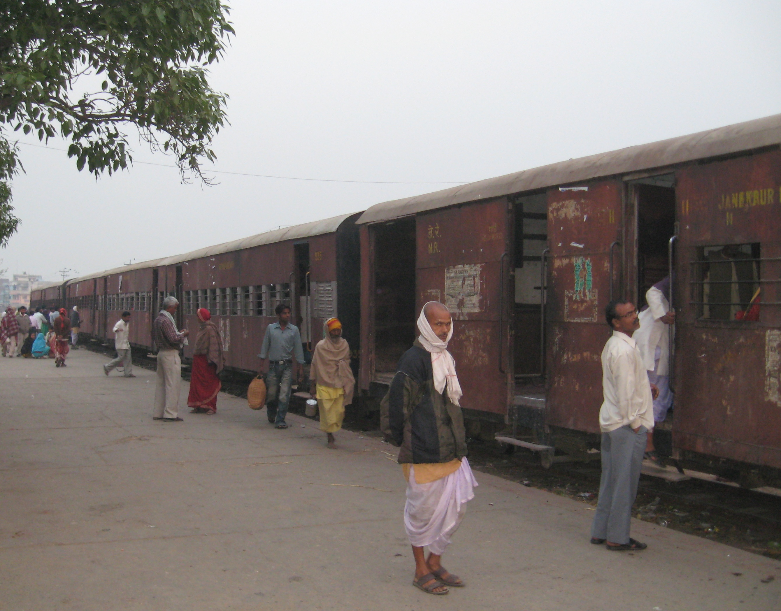 2nd class carriages at the Trainstation Janakpur. Object location 26° 44′ 3.00″ N, 85° 56′ 12.00″ E - OpenStreetMap - Proximityrama (Info)